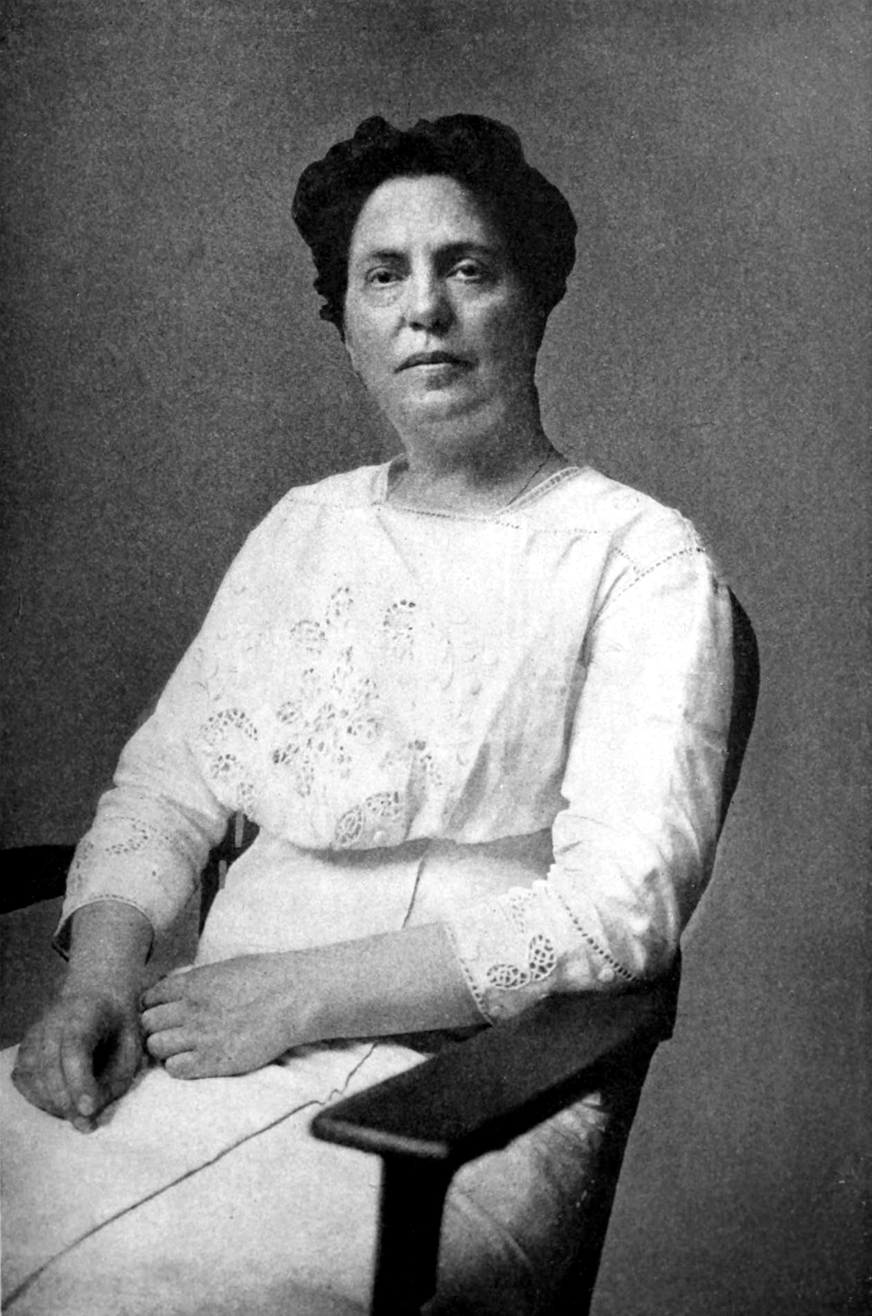 Portrait of Lillian Wald